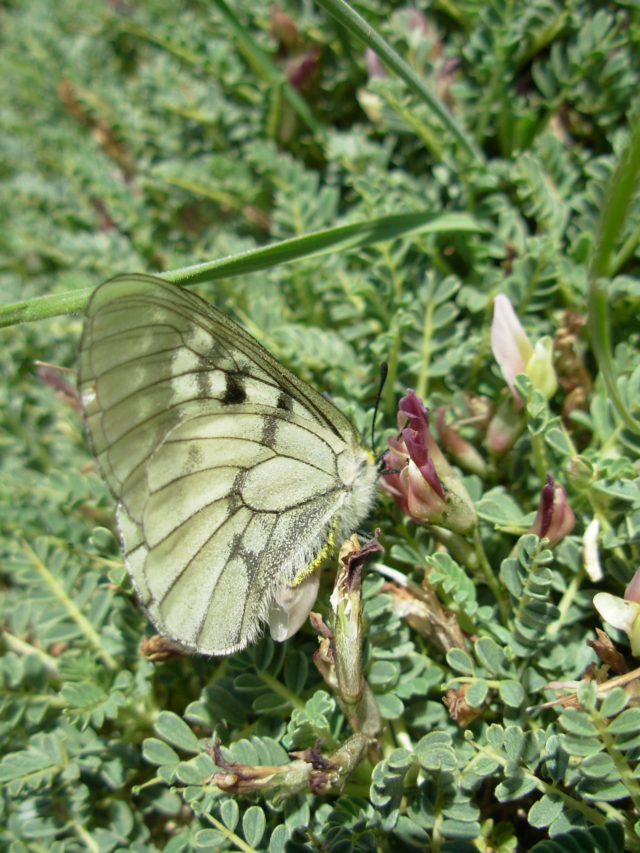 צבעוני החרמון (Parnassius mnemosyne)נצפה במסגרת ניטור פרפרים בסיור האגודה בחרמון, 25 ביוני 2011